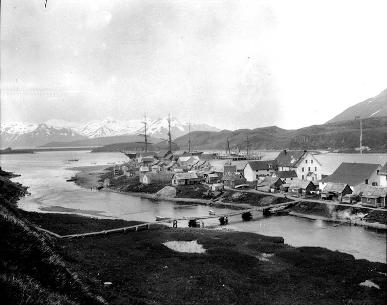 From John Cobb field notebook: Unalaska, Alaska. June 1906 Subjects (LCTGM): Houses--Alaska--Unalaska; Ships--Alaska--Unalaska Subjects (LCSH): Unalaska (Alaska)